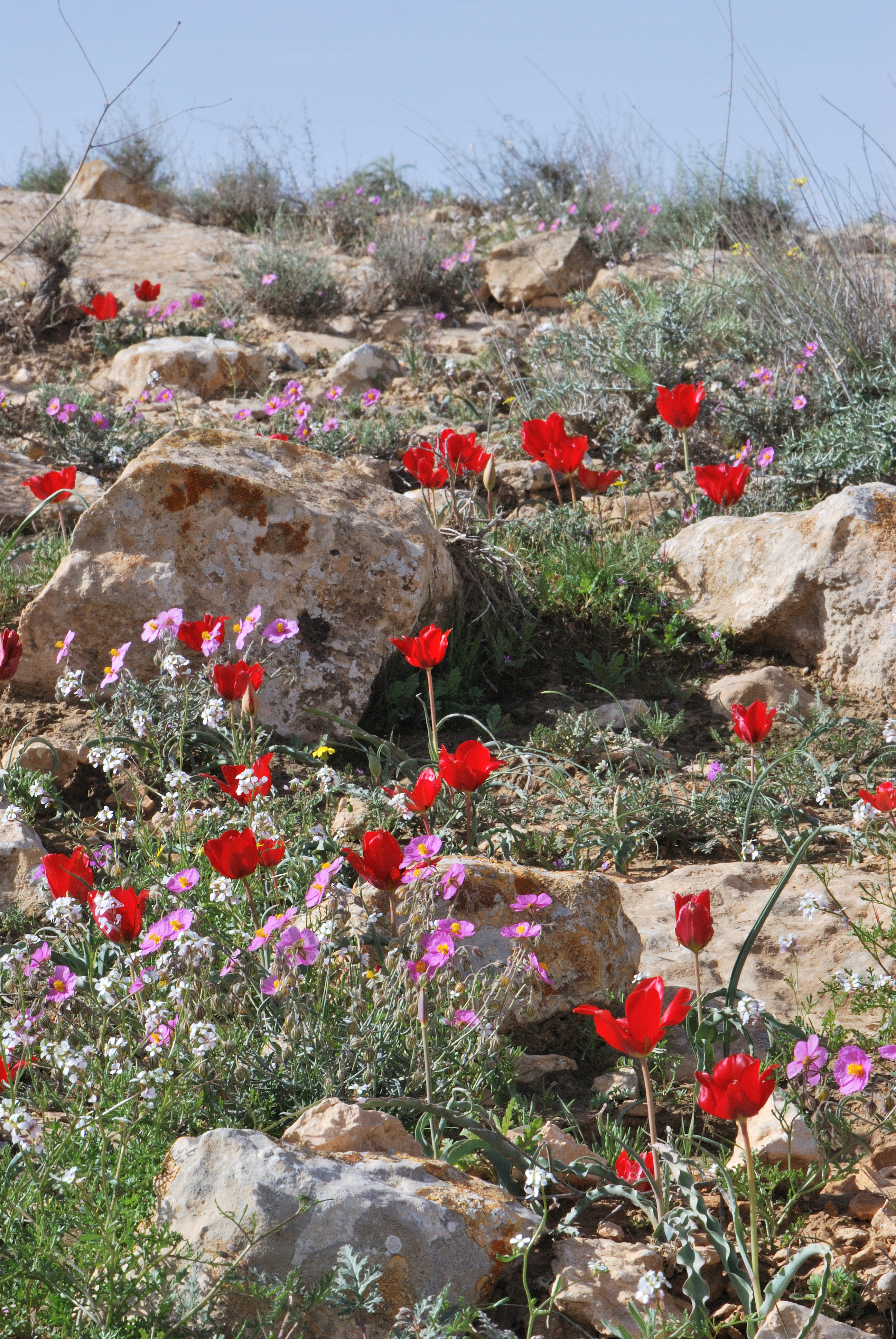 Spring bloom at the Negev Mountains, with Tulipa systola, Helianthemum vesicarium, and Erucaria microcarpa. March 5, 2010.